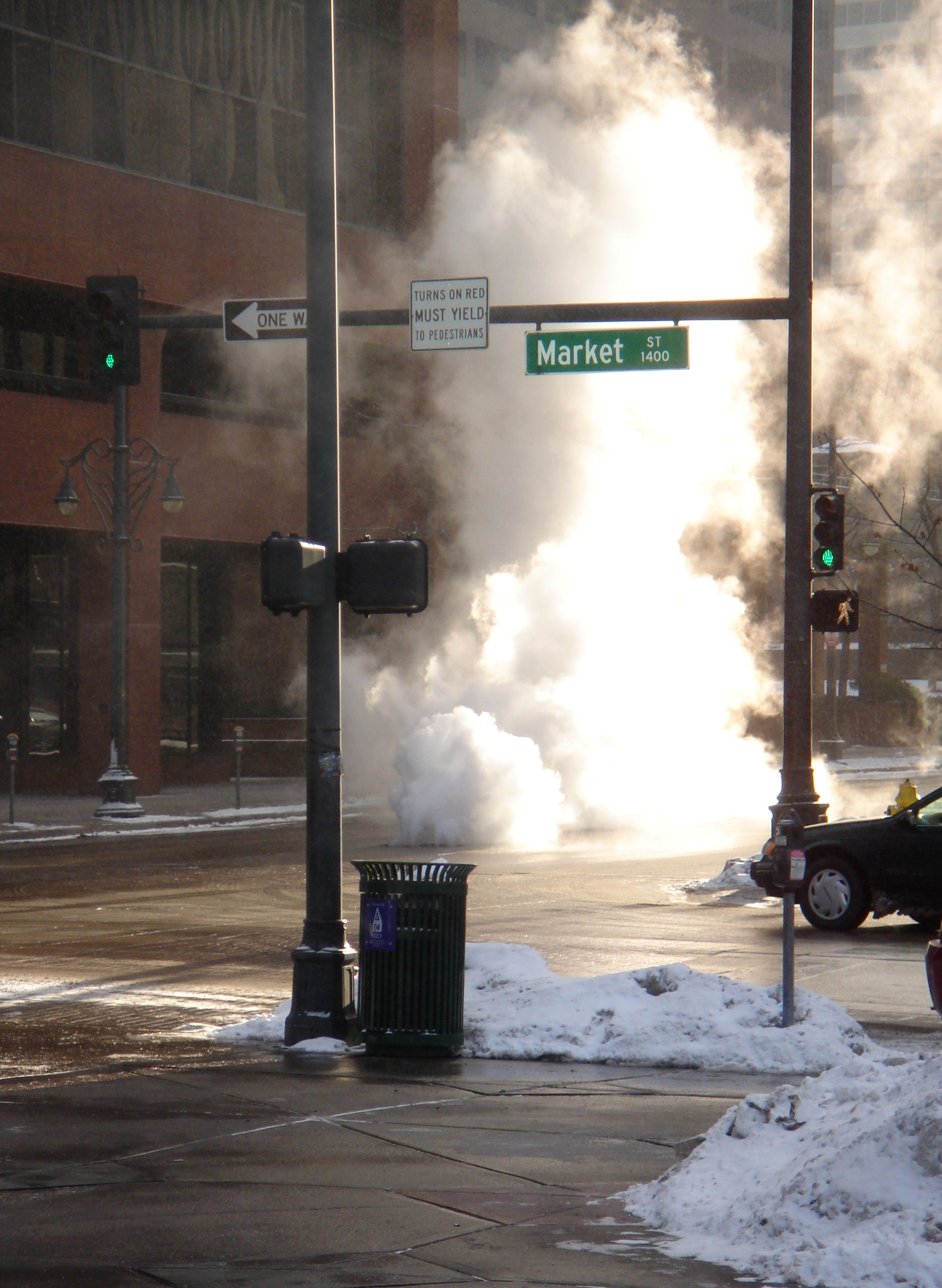 steam, water vapor at 17th and Market Streets, Denver (Colorado), USA